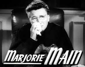 Cropped screenshot of Marjorie Main from the trailer for the film We Were Dancing